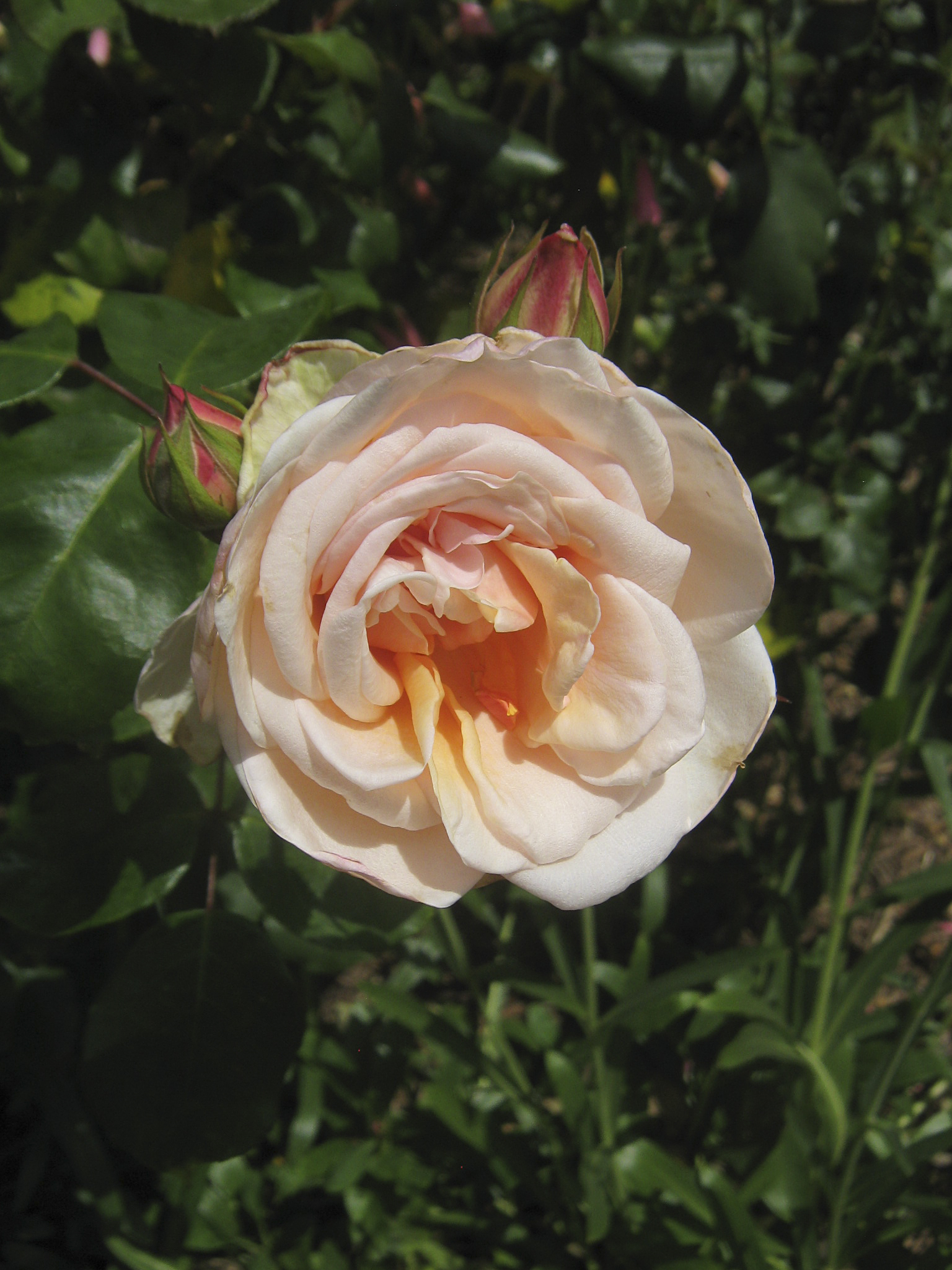 Rose 'Sunlit', Hybrid Tea by Alister Clark 1937; Photographed in the Alister Clark Memorial Rose Garden, Bulla, Victoria